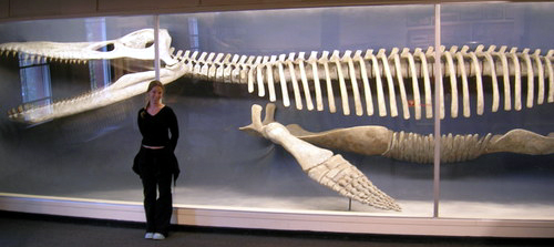 Kronosaurus skeleton.